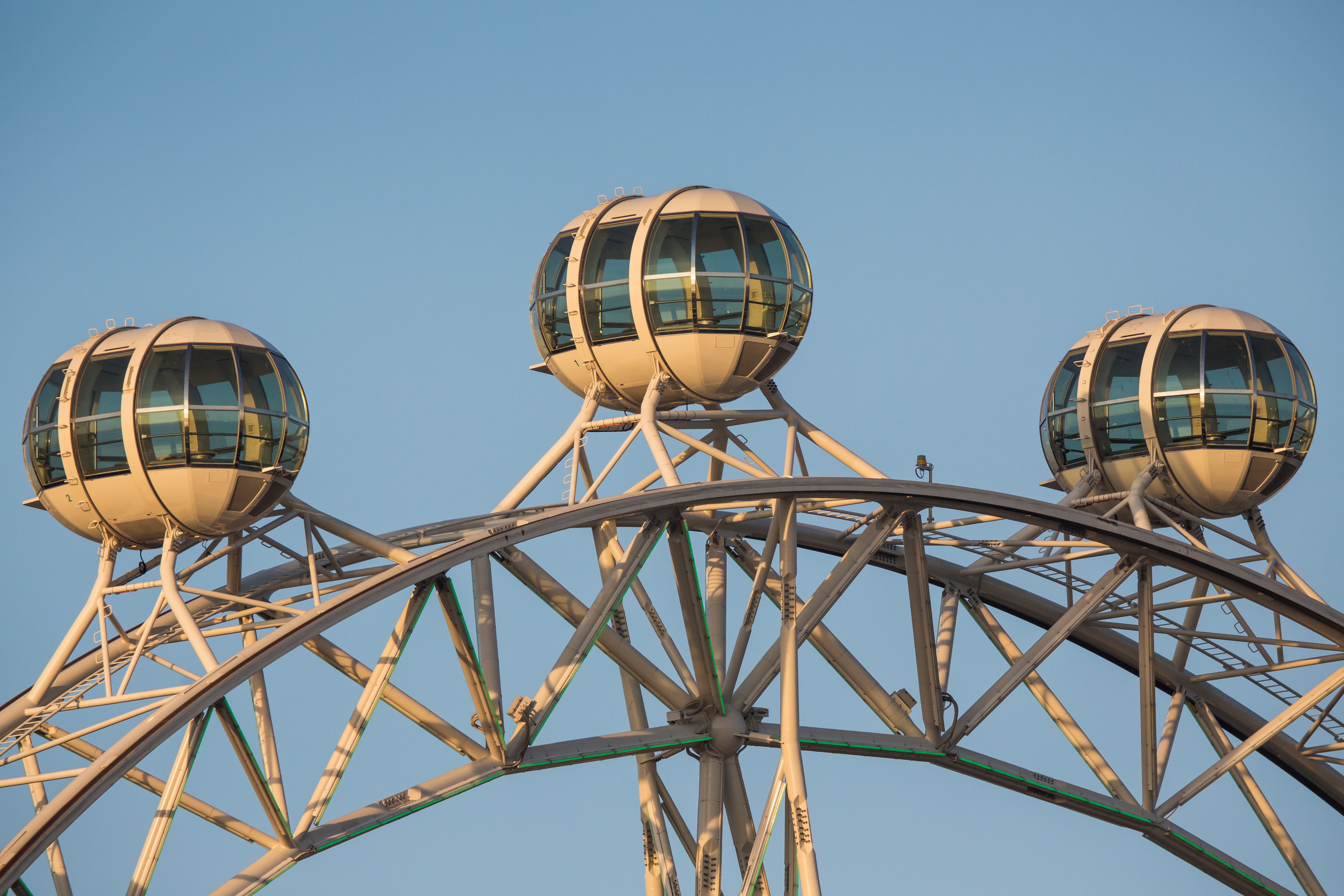 Melbourne Star Observation Wheel 18th Dec 2013